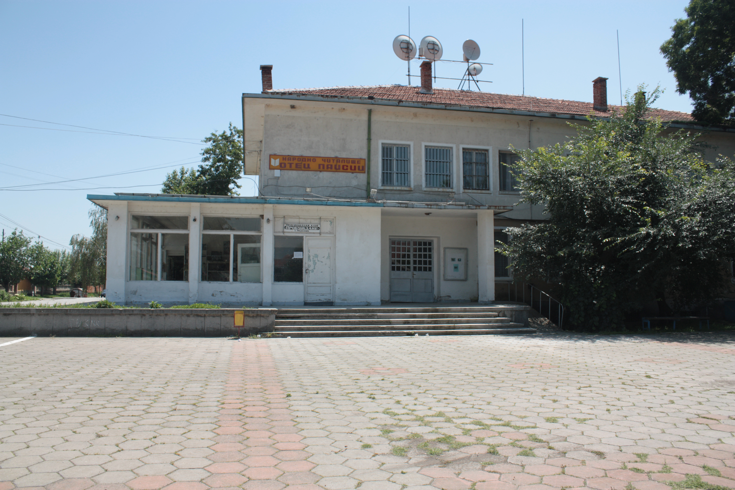 Culture club (Chitalishte) in Nedelevo, Bulgaria